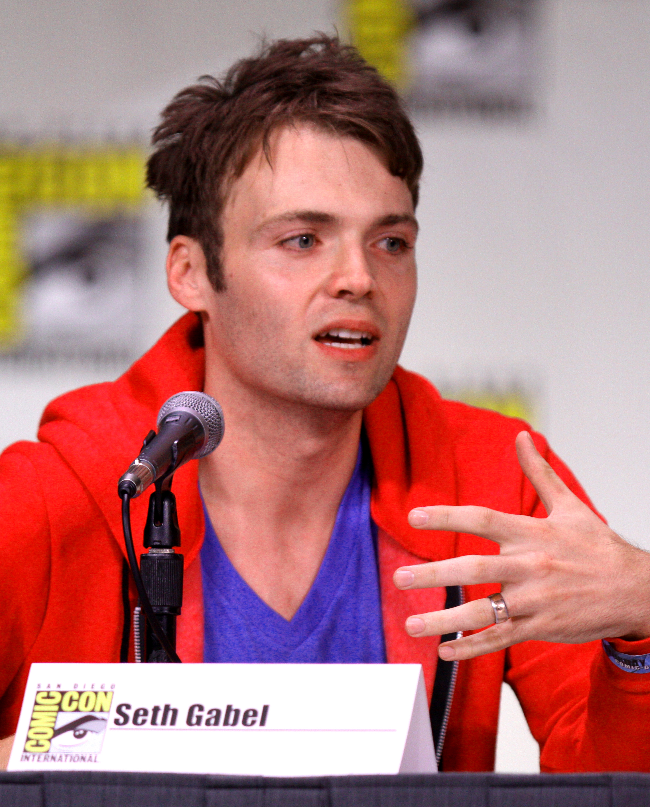 Seth Gabel at the 2011 Comic Con in San Diego